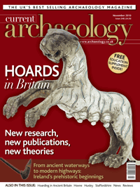 Cover of Current Archaeology, Issue 248